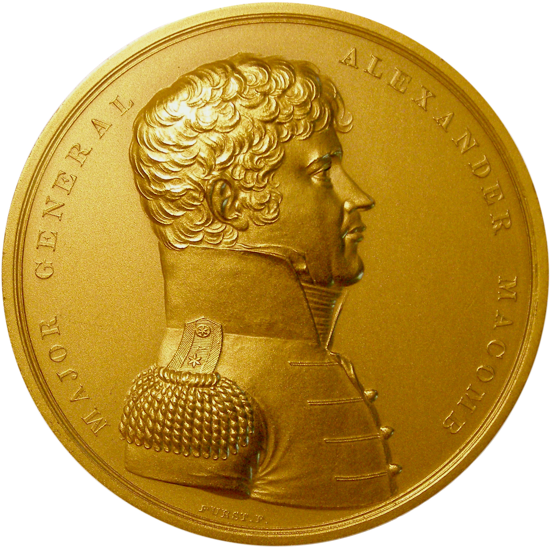 Alexander Macomb (1782-1841), Congressional Gold Medal obverse